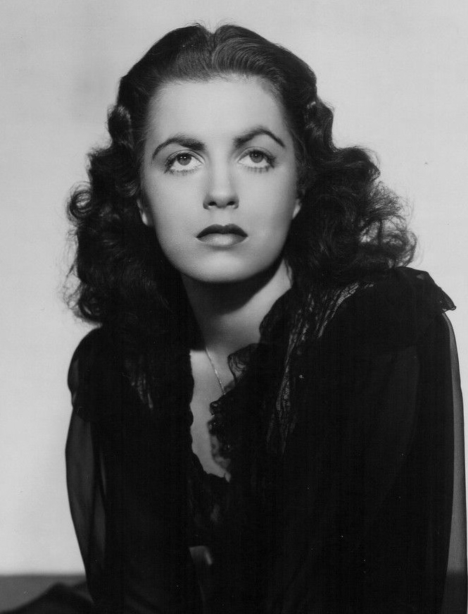 Faith Domergue in a 1946 headshot